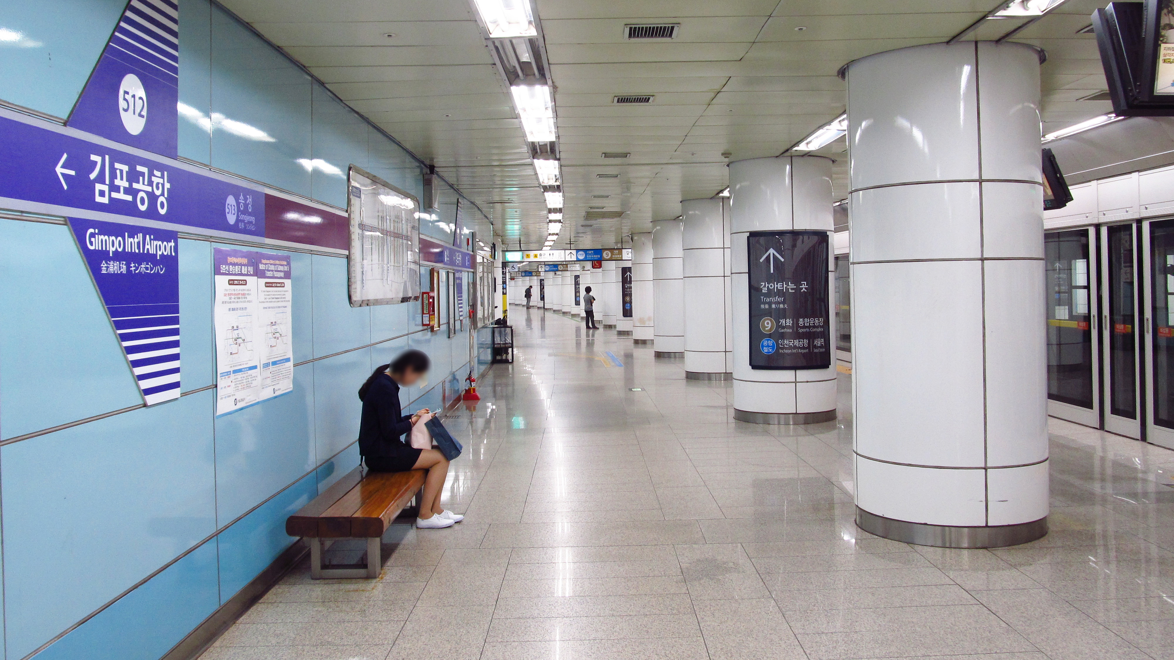 The platform at Gimpo International Airport Station for Seoul Subway Line 5